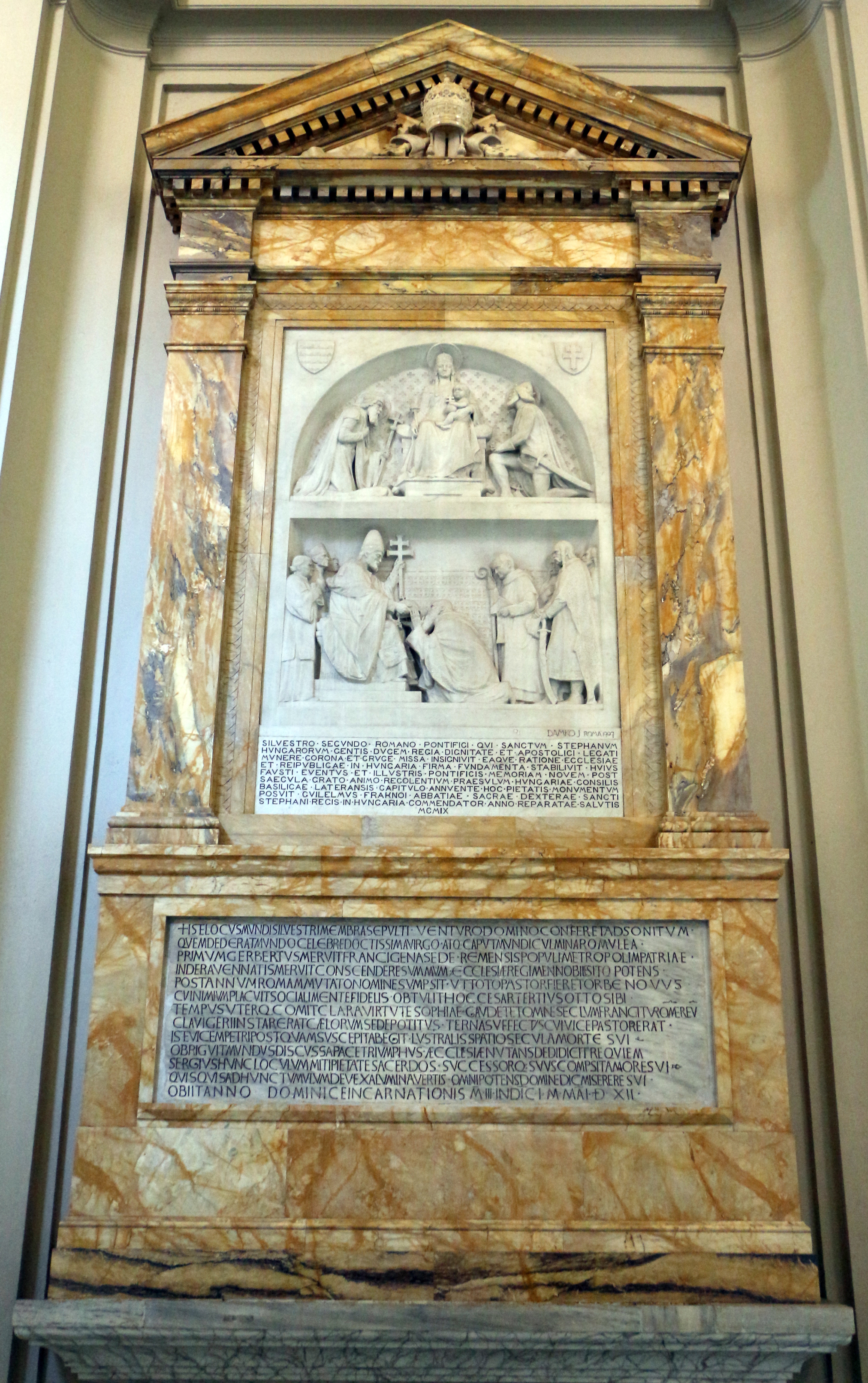 San Giovanni in Laterano (Rome) - Interior